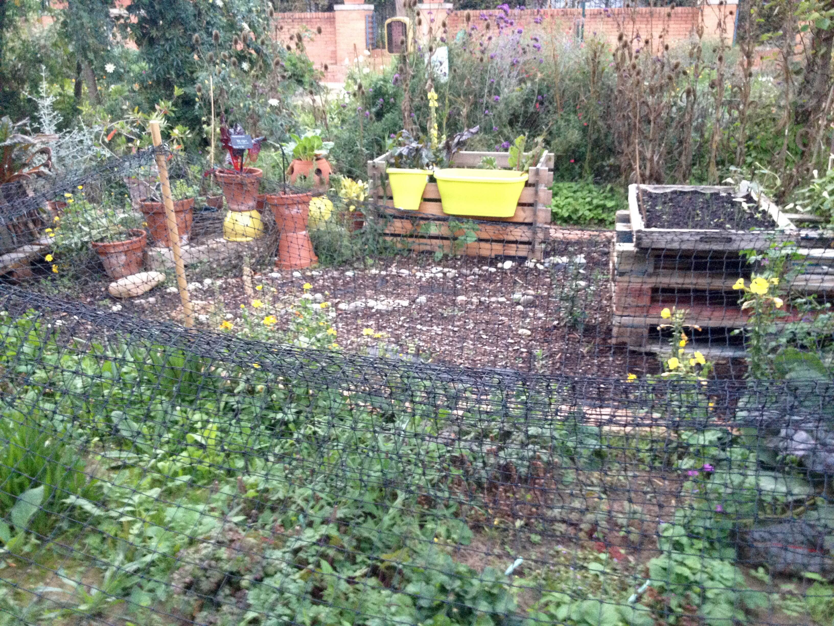 הגינה לזכר רבין